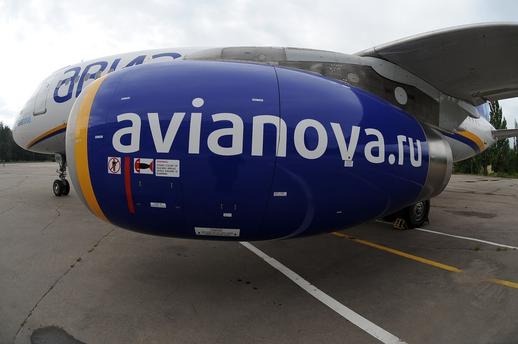 avianova plane